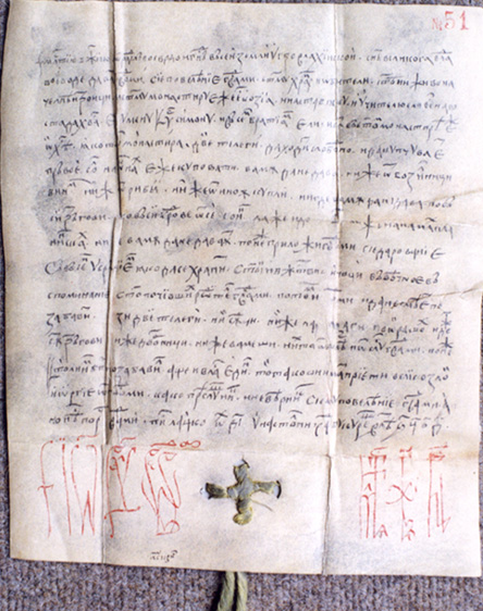 Writ of the Wallachian voivode Radu cel Frumos dated 14 October 1465, parchment facsimile. It is the oldest known document that mentions Bucharest by name.